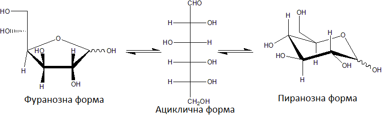 This is a version of File:Existence in solution.png in which labels have been translated into Serbian language.